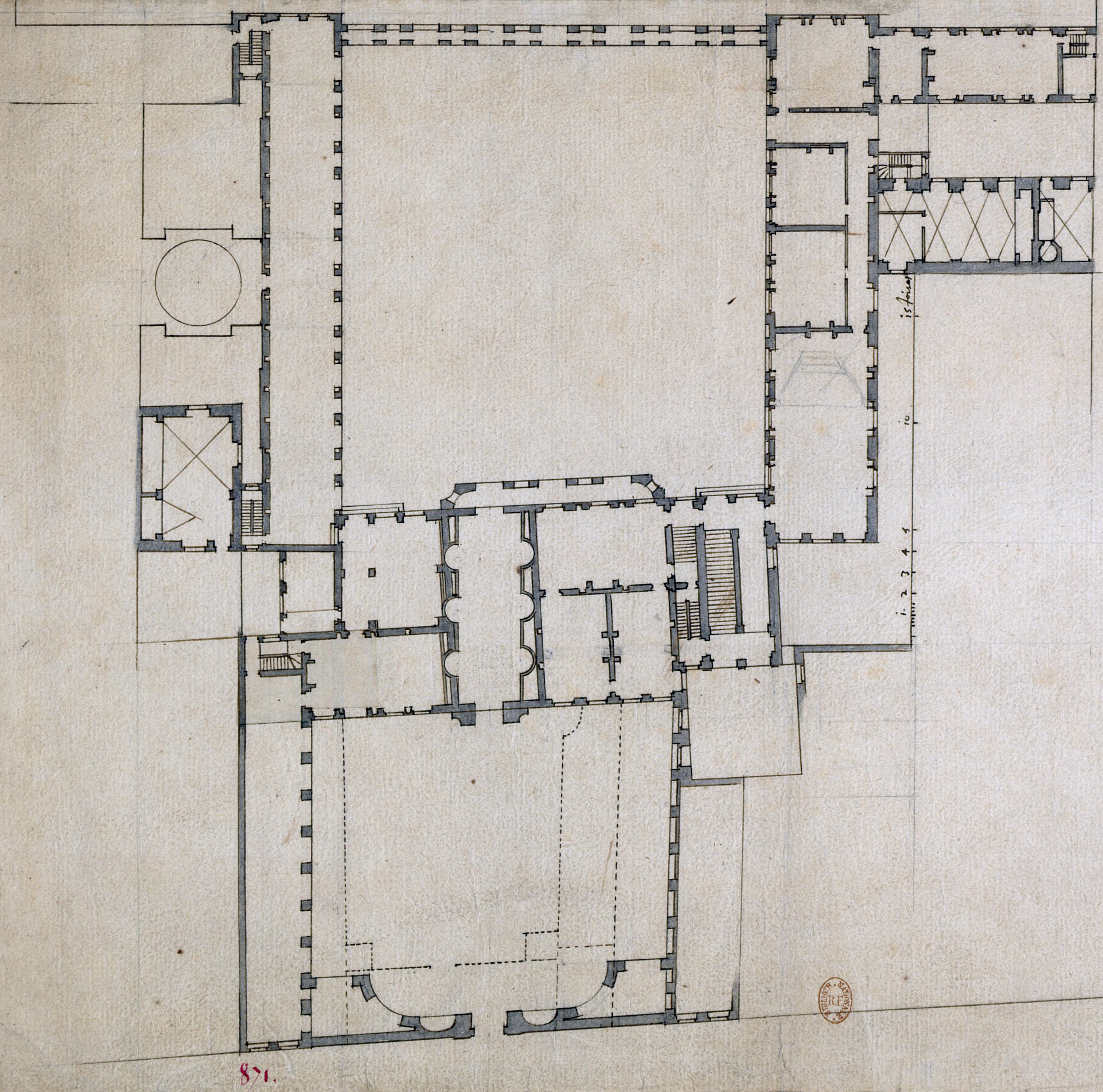 Plan of the rez-de-chaussée (ground floor) of the Palais-Cardinal in Paris, drawing by Jacques Lemercier for his first project for the extension of the palace, c. 1633 (author attribution and date from Gady 2005, p. 297)